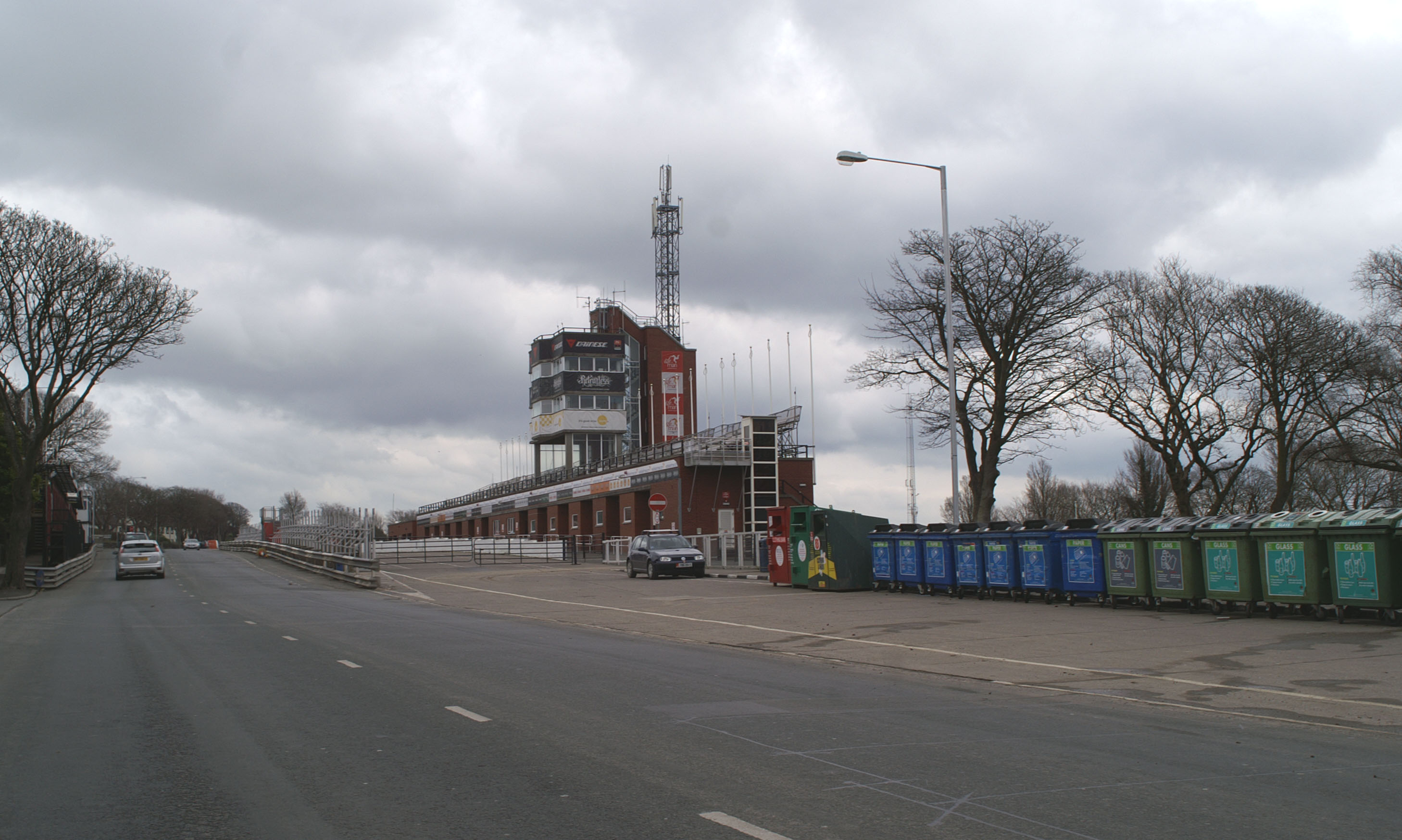 The stands at the TT Start/Finish line